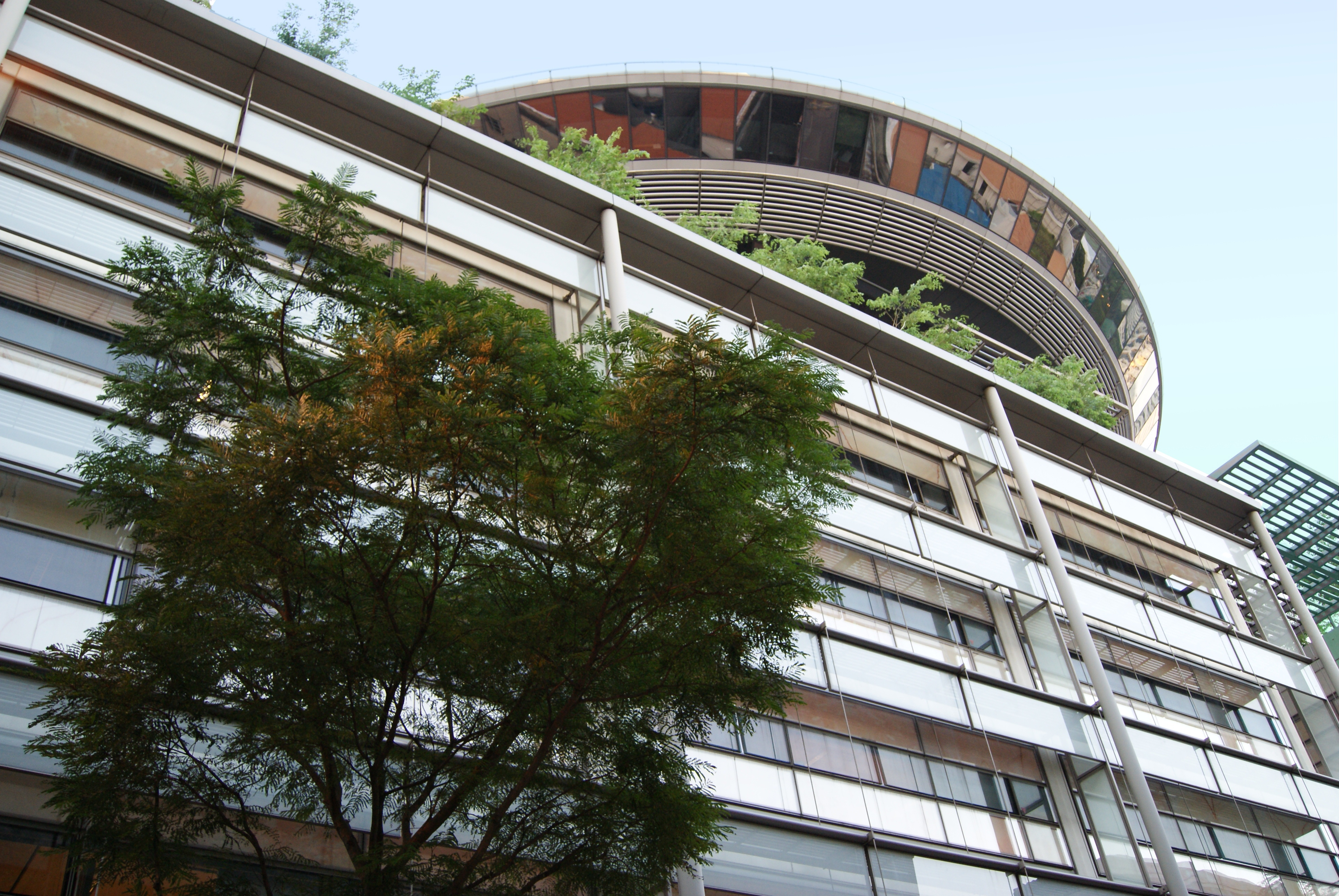 The Supreme Court of Singapore photographed from Supreme Court Lane. The disc-shaped structure at the top of the building houses the Court of Appeal courtroom.